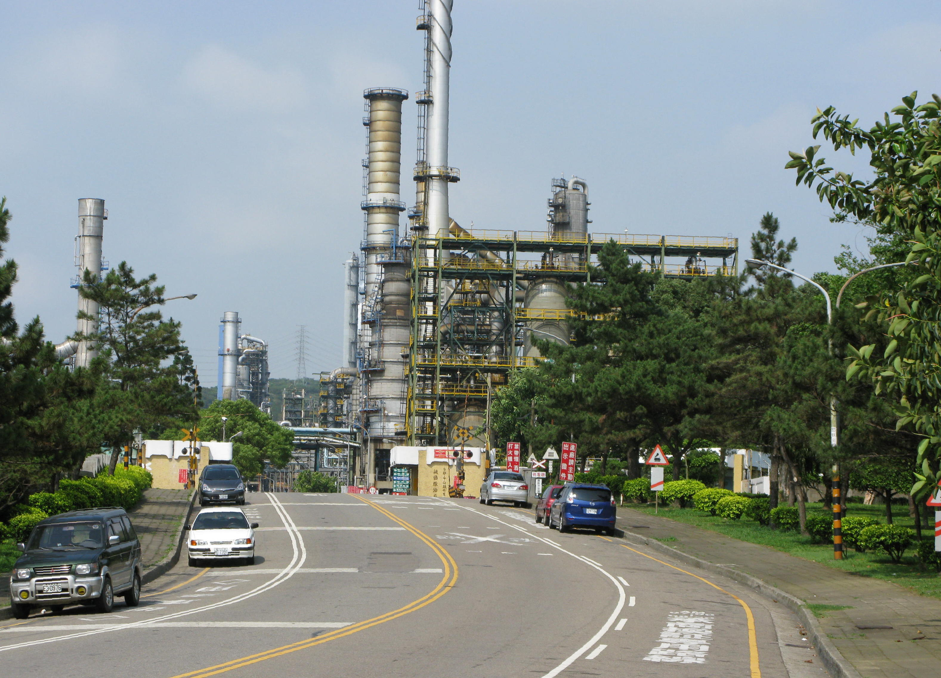 CPCC Gueishan oil refinery 2,Taiwan